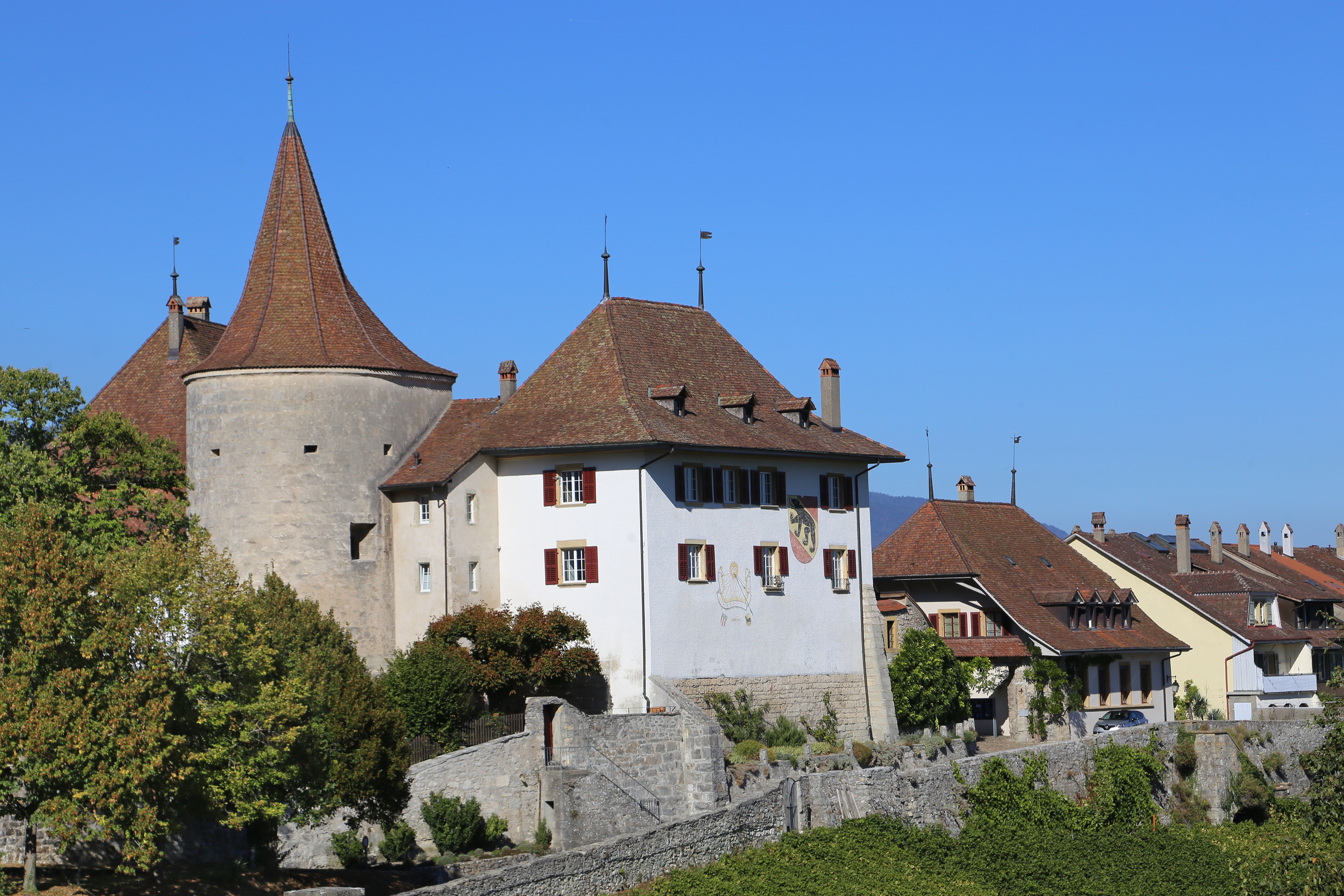 Erlach BE (Switzerland): Old Town with castle.